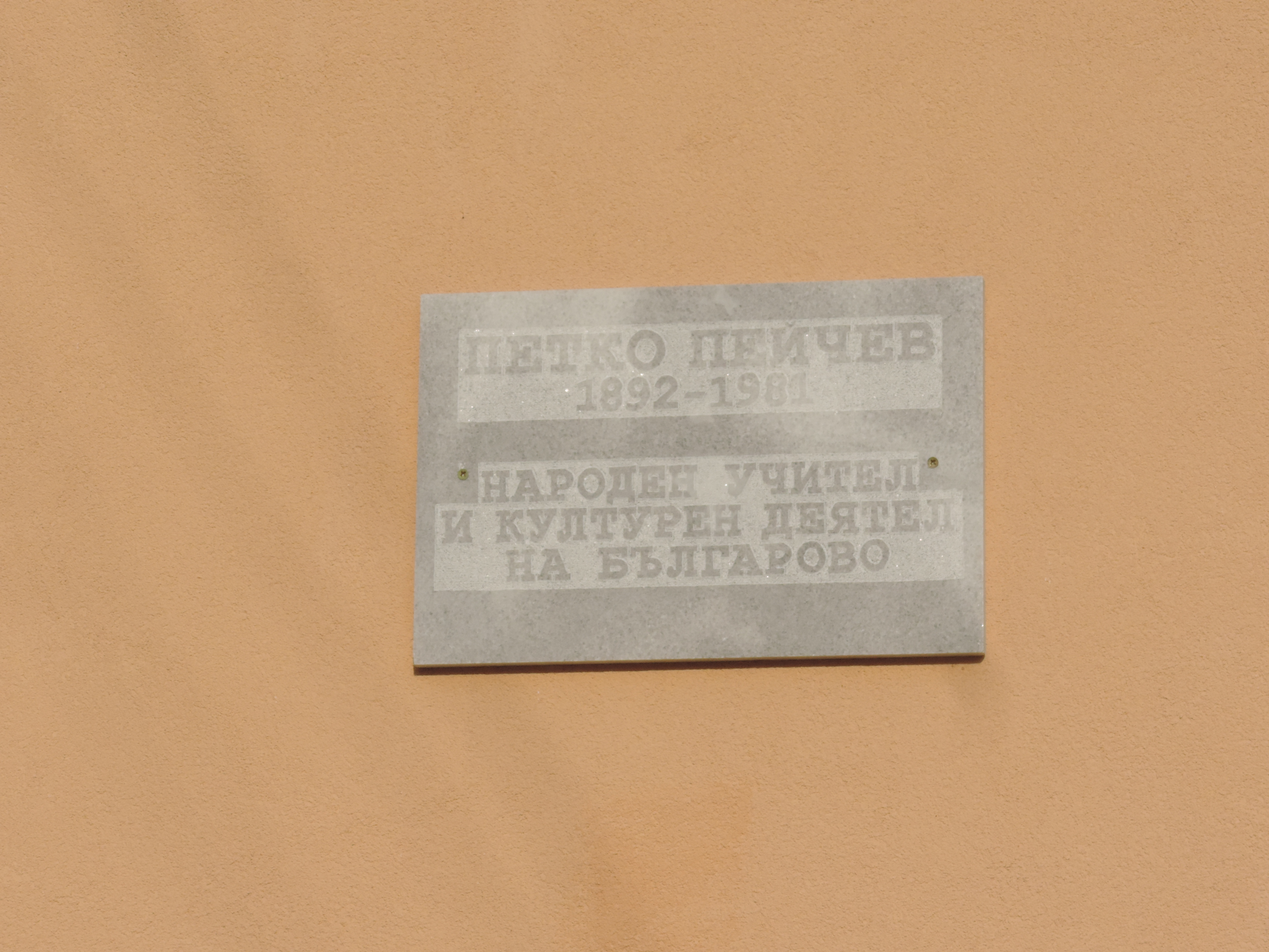 Plaque on the wall of chitalishte "Saglasie" in village Balgarovo, Burgas Province, Bulgaria